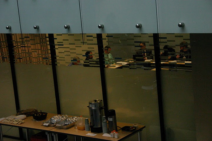 Shimer College Board of Trustees meets behind closed doors on February 20th to vote on revision of mission statement.